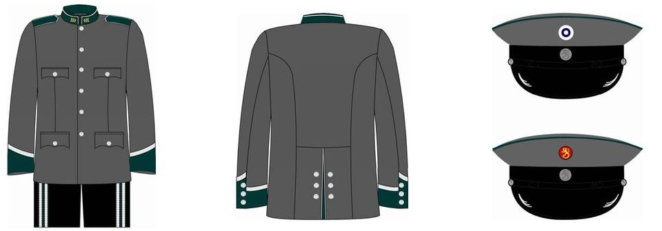 Uniform garments to full dress uniform model 2010 for Finnish Guard Jaeger Regiment Honour Guard Company